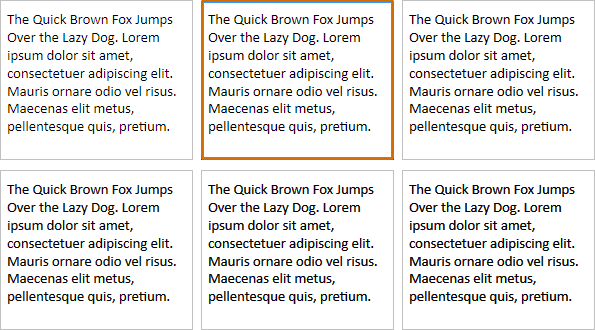 ScreenCopy ClearType Adjustment Windows 7 Part 4/4: Still under investigation